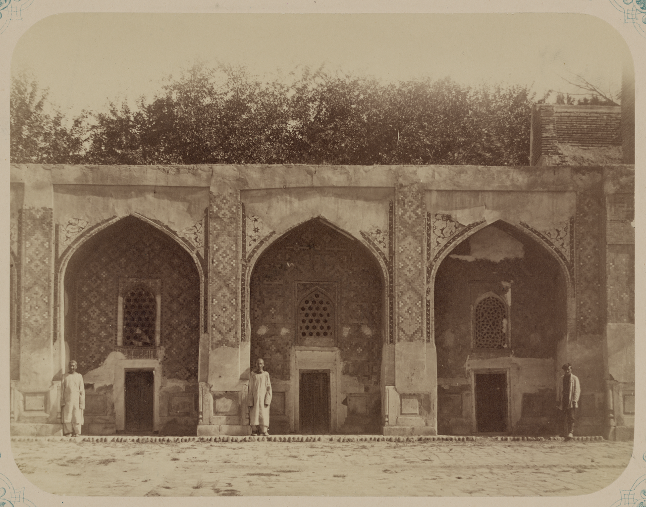 This photograph of the Nadir Divan-Begi Madrasah in Samarkand (Uzbekistan) is from the archeological part of Turkestan Album. The six-volume photographic survey was produced in 1871-72 under the patronage of General Konstantin P. von Kaufman, the first governor-general (1867-82) of Turkestan, as the Russian Empire’s Central Asian territories were called. The album devotes special attention to Samarkand’s Islamic architectural heritage. Located next to the Khodzha Akhrar shrine, this madrasah (religious school) was completed in 1631 by Nadir Divan-Begi, vizier to the Bukharan ruler Imam-Quli Khan. The madrasah was planned as a rectangular courtyard enclosed by a one-story arcaded cloister for scholars and a mosque at one end. This view shows three cells (khujras) on the left side of the south cloister. Each arched cell has a lattice window above the low door. The standing figures give an idea of the scale. Although the facade shows major losses of ceramic ornamentation, it is clear that the arch niches, as well as the outer facade, were covered in a rich array of polychrome tiles with floral and geometric designs. The lower part of the wall was originally surfaced in stone. A brick passageway elevates the arcade from the cobbled courtyard. On the far right is the edge of the iwan arch at the center of the south cloister. Islamic architecture; Madrasahs; Photographic surveys